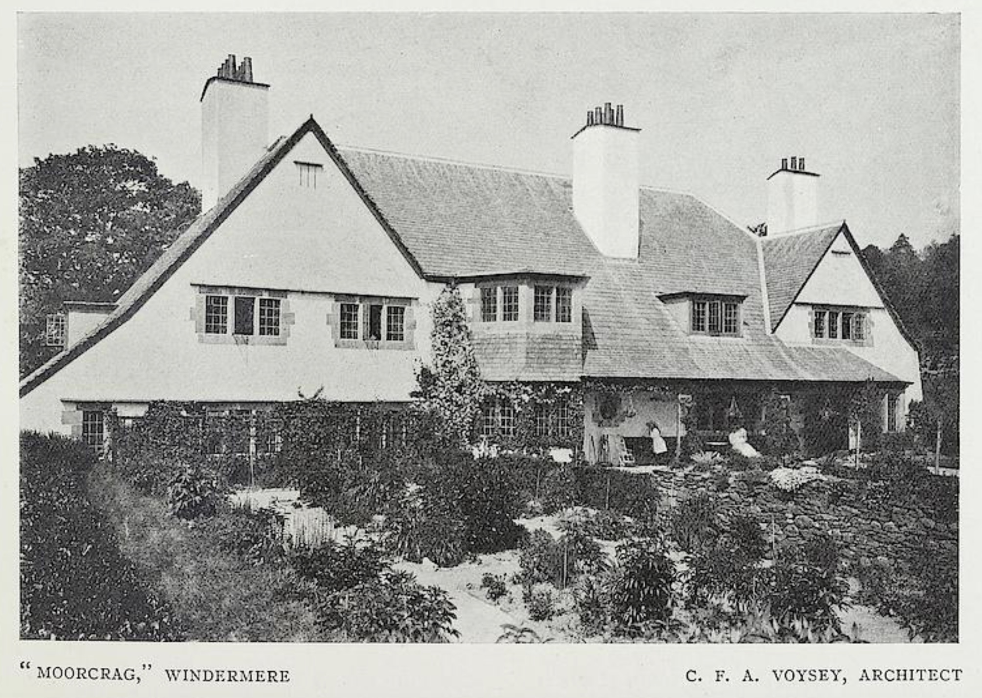 Moorcrag, Windermere by C.F.A. Voysey, Architect, from the Studio Yearbook 1907